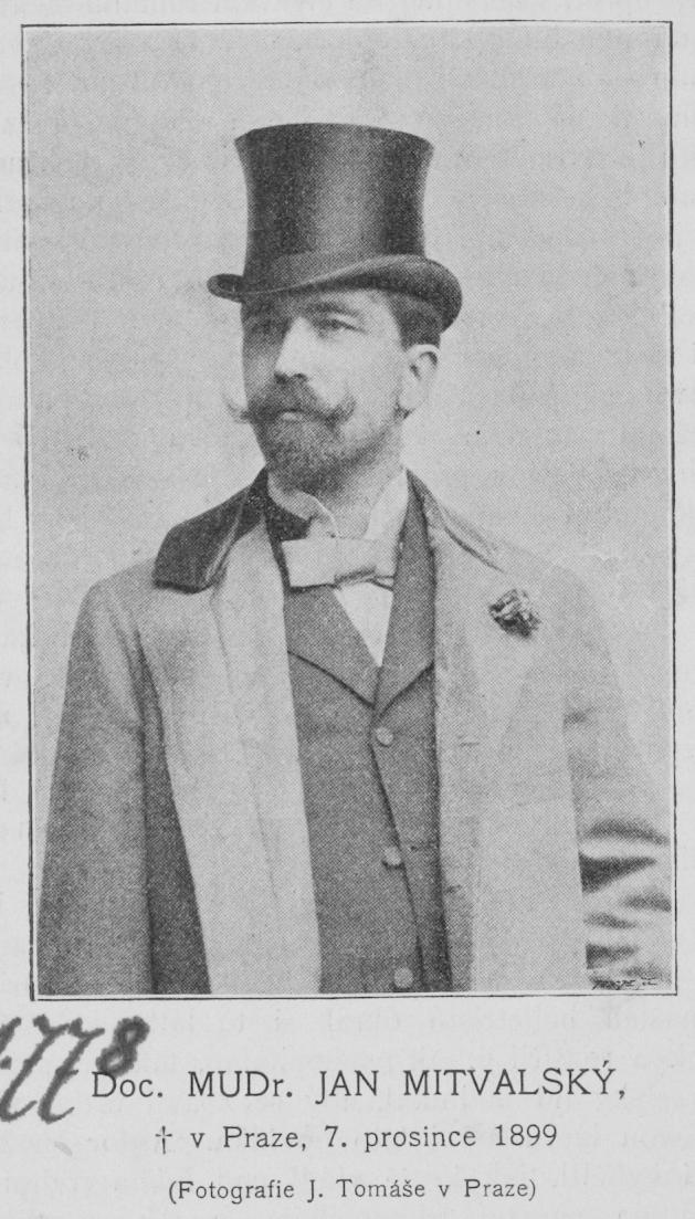 Portrait of Jan Evangelista Mitvalský (1861 - 1899), Czech ophtalmologist.